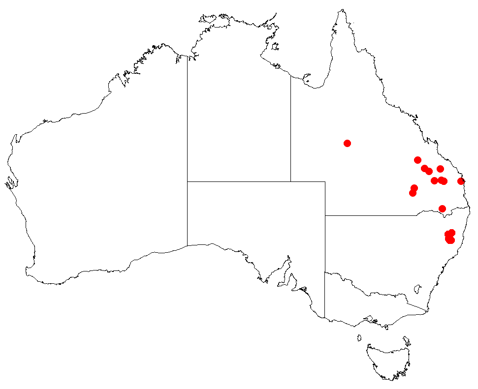 Hakea fraseri Occurrence data downloaded from Australasian Virtual Herbarium on 22 November 2018 using